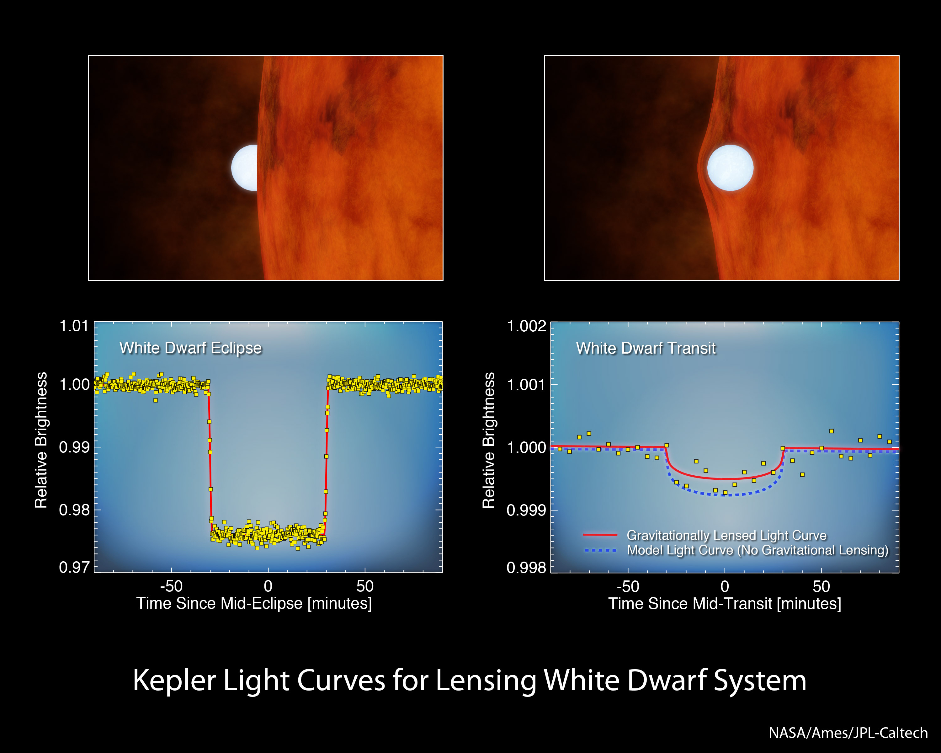 This chart shows data from NASA's Kepler space telescope, which looks for planets by monitoring changes in the brightness of stars. As planets orbit in front of a star, they block the starlight, causing periodic dips. The plot on the left shows data collected by Kepler for a star called KOI-256, which is a small red dwarf. At first, astronomers thought the dip in starlight was due to a large planet passing in front of the star. But certain clues, such as the sharpness of the dip, indicated it was actually a white dwarf -- the dense, heavy remains of a star that was once like our sun. In fact, in the data shown at left, the white dwarf is passing behind the red dwarf, an event referred to as a secondary eclipse. The change in brightness is a result of the total light of the system dropping. The plot on the right shows what happens when the white dwarf passes in front of, or transits, the star. The dip in brightness is incredibly subtle because the white dwarf, while just over half as massive as our sun, is only the size of Earth, much smaller than the red dwarf star. The blue line shows what would be expected given the size of the white dwarf. The red line reveals what was actually observed: the mass of the white dwarf is so great, that its gravity bent and magnified the light of the red star. Because the star's light was magnified, the transiting white dwarf blocked an even smaller fraction of the total starlight than it would have without the distortion. This effect, called gravitational lensing, allowed the researchers to precisely measure the mass of the white dwarf.